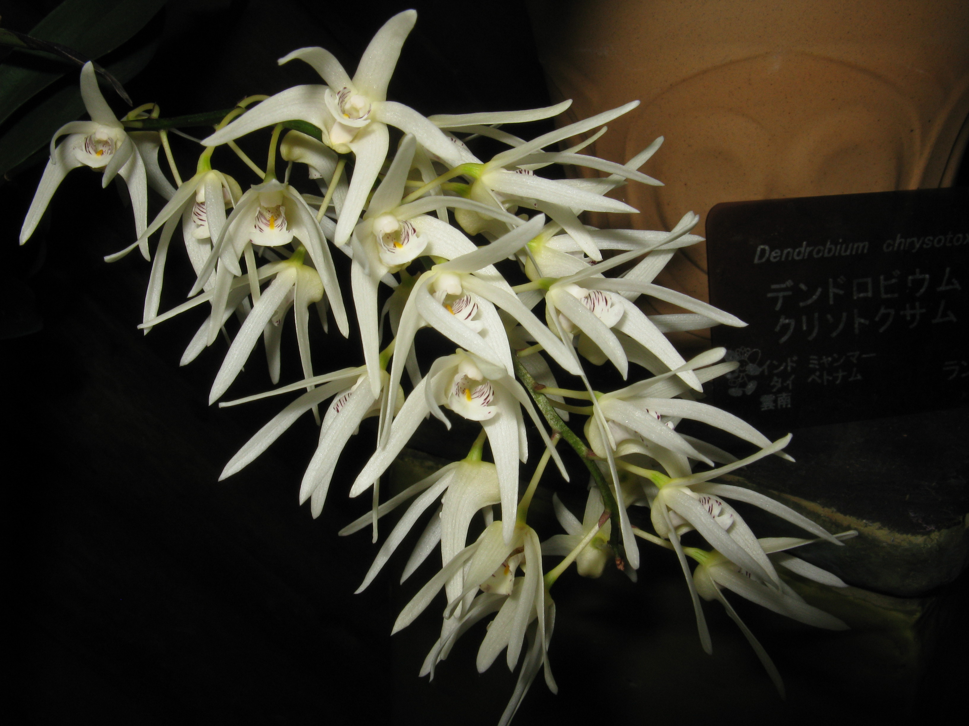 Scientific name Dendrobium ruppianum Place:Osaka Prefectural Flower Garden,Osaka,Japan